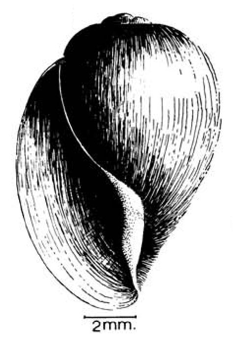 Drawing of apertural view of the shell of Bulinus globosus.